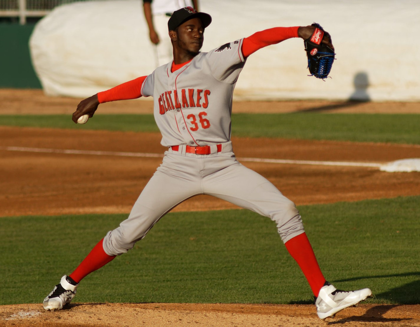 Yadier Alvarez with the Great Lakes Loons